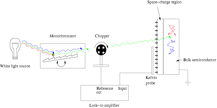 Surface photovoltage measurements are an electro-optical method for the characterization of semiconductors. The figure schematically illustrates a surface photovoltage apparatus, including a chopped light source whose wavelength is scanned and a Kelvin probe used to measure the modulation of the surface potential. Drawn by Alison Chaiken using xfig.